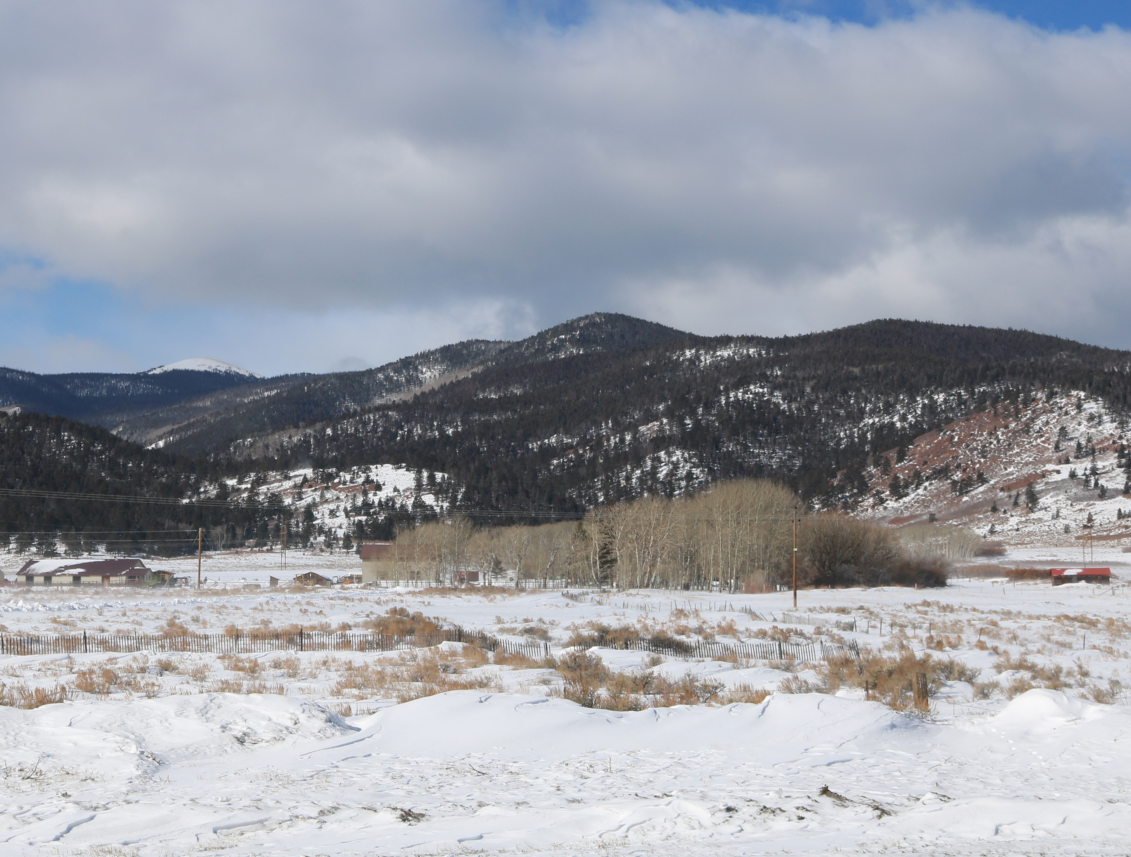 Alder, Colorado, an unincorporated community in Saguache County.